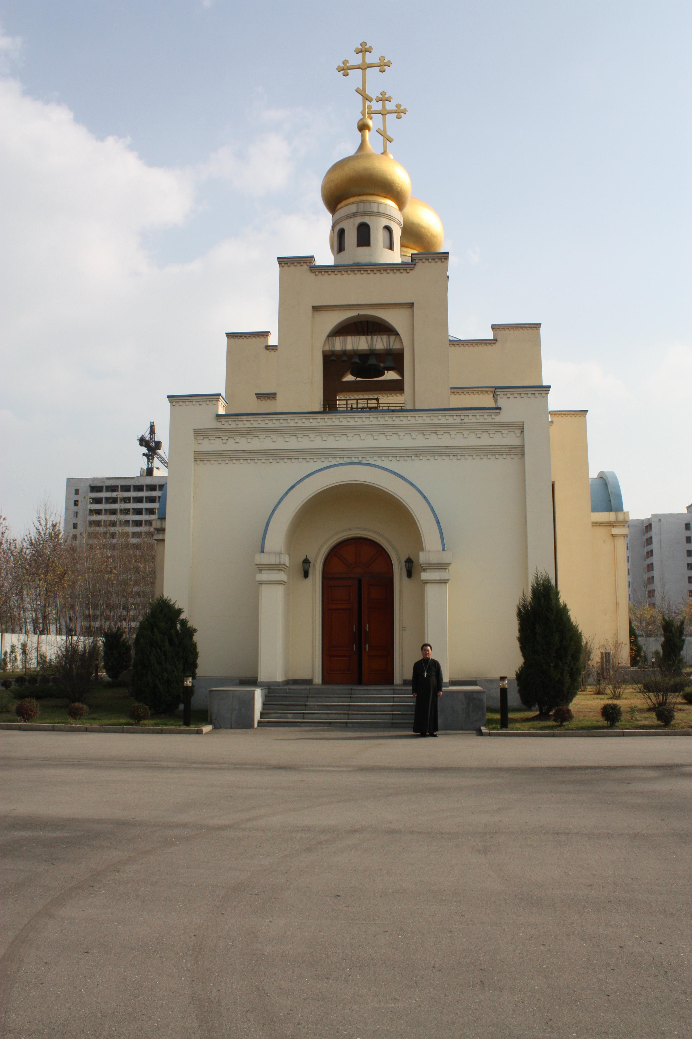 Russian Orthodox Church in Pyongyang, November 2011